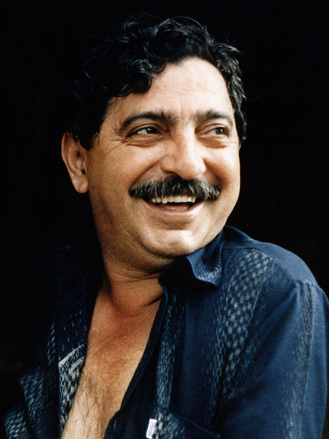 Chico Mendes at his home in Xapuri, Acre, Brazil